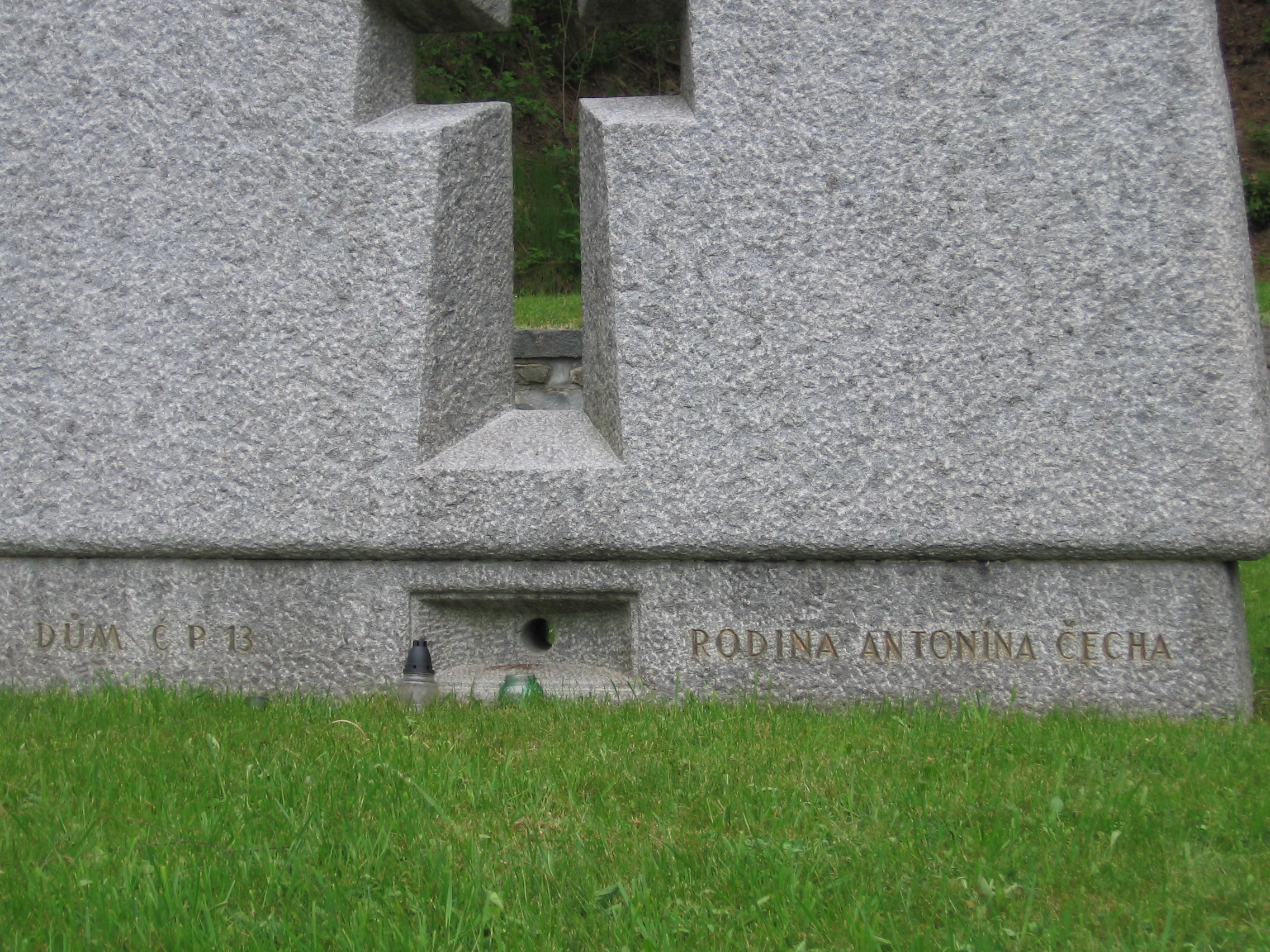 Tomb-house issue descriptive 13, lived here family of Antonin Cech.